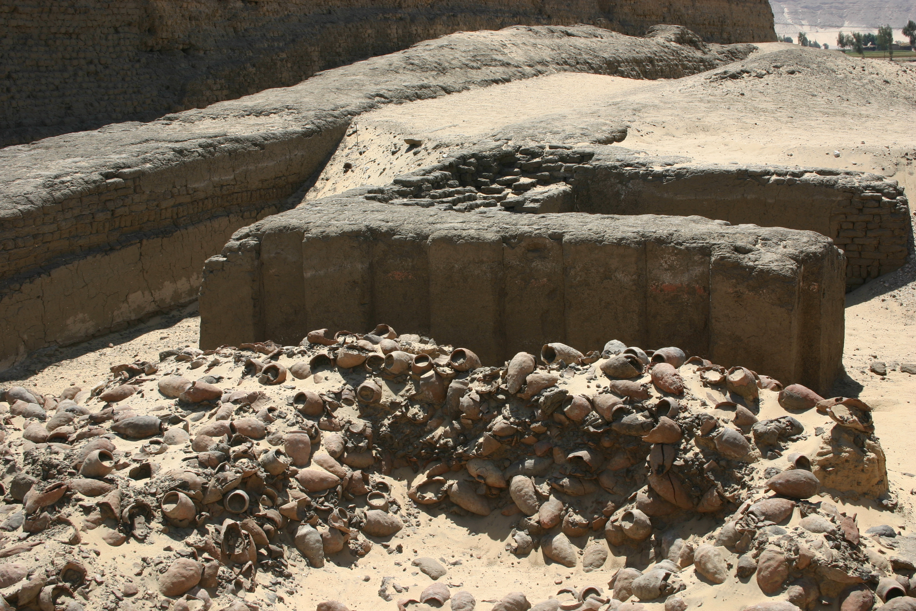 Details of enclosure of Peribsen, showing associated offerings and Khasekhemwy enclosure behind